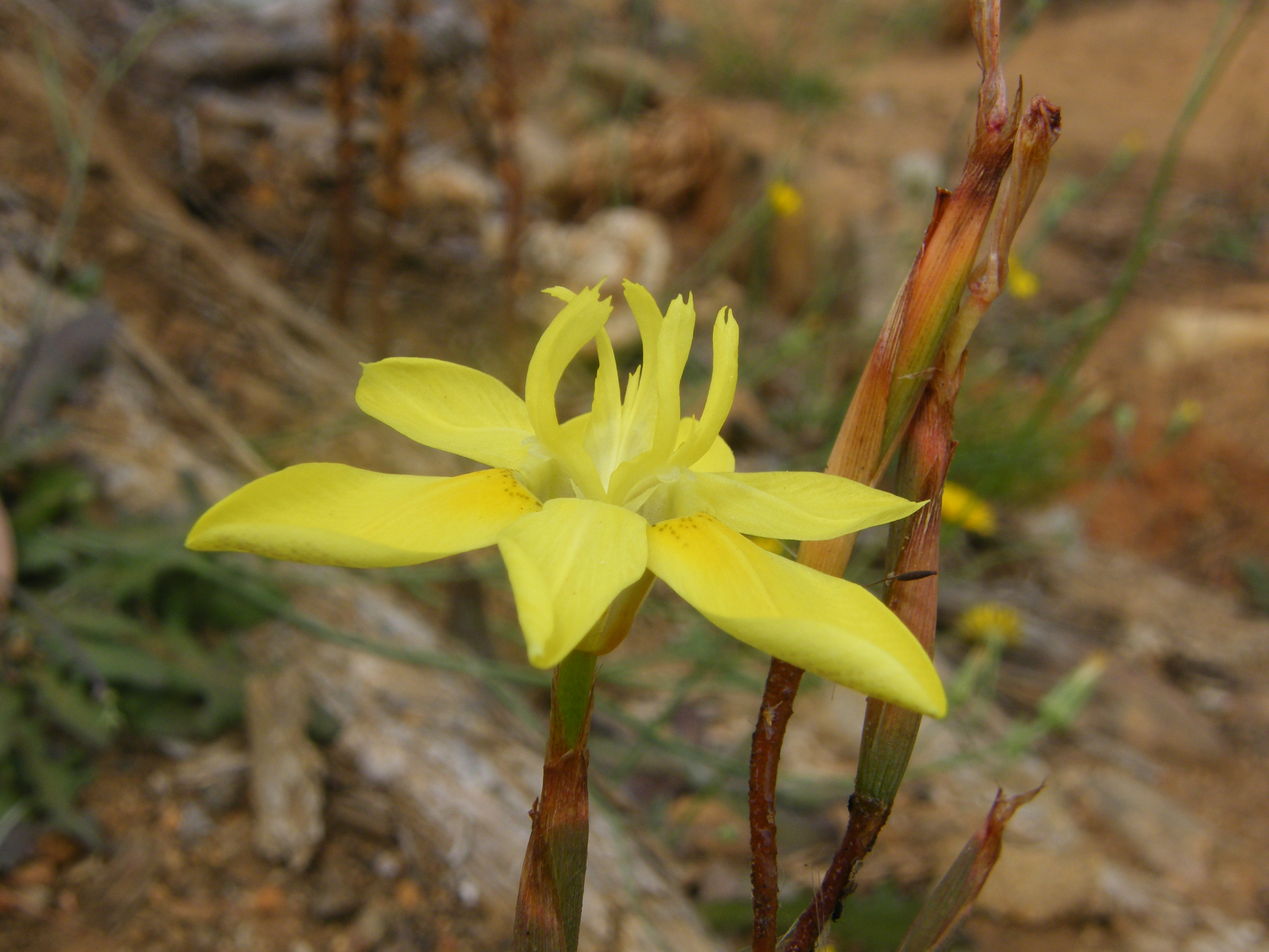 Moraea